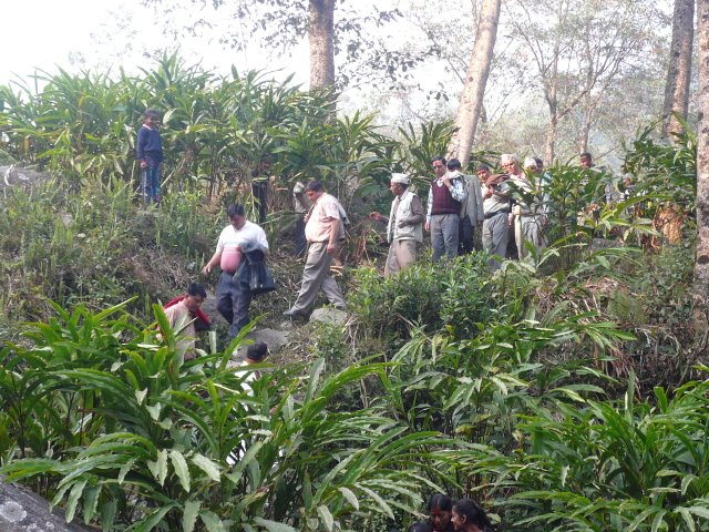 A cash crop from Tehrathum district of Nepal